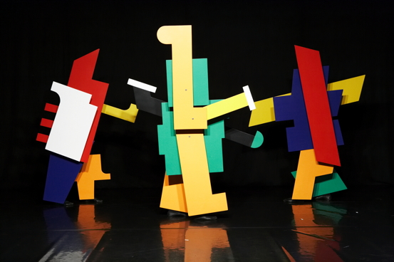 The image shows three figurines from Bauhaus artist Kurt Schmidt's stage piece "the mechanical ballet" in the adaptation made by Düsseldorf based Theater der Klänge. From left to right it shows the figurines "machine-being", "locomotive" and "windmill".